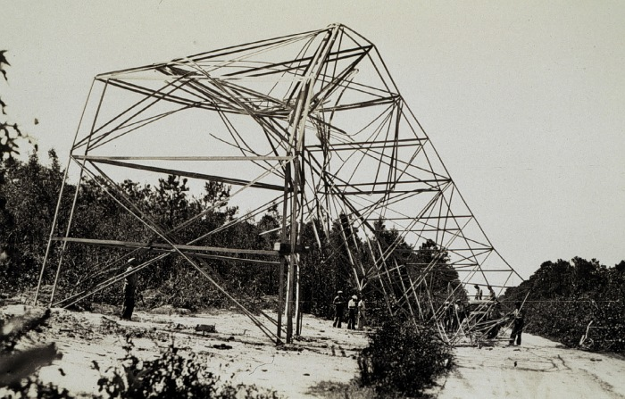 Damage after the 1933 September Hurricane.